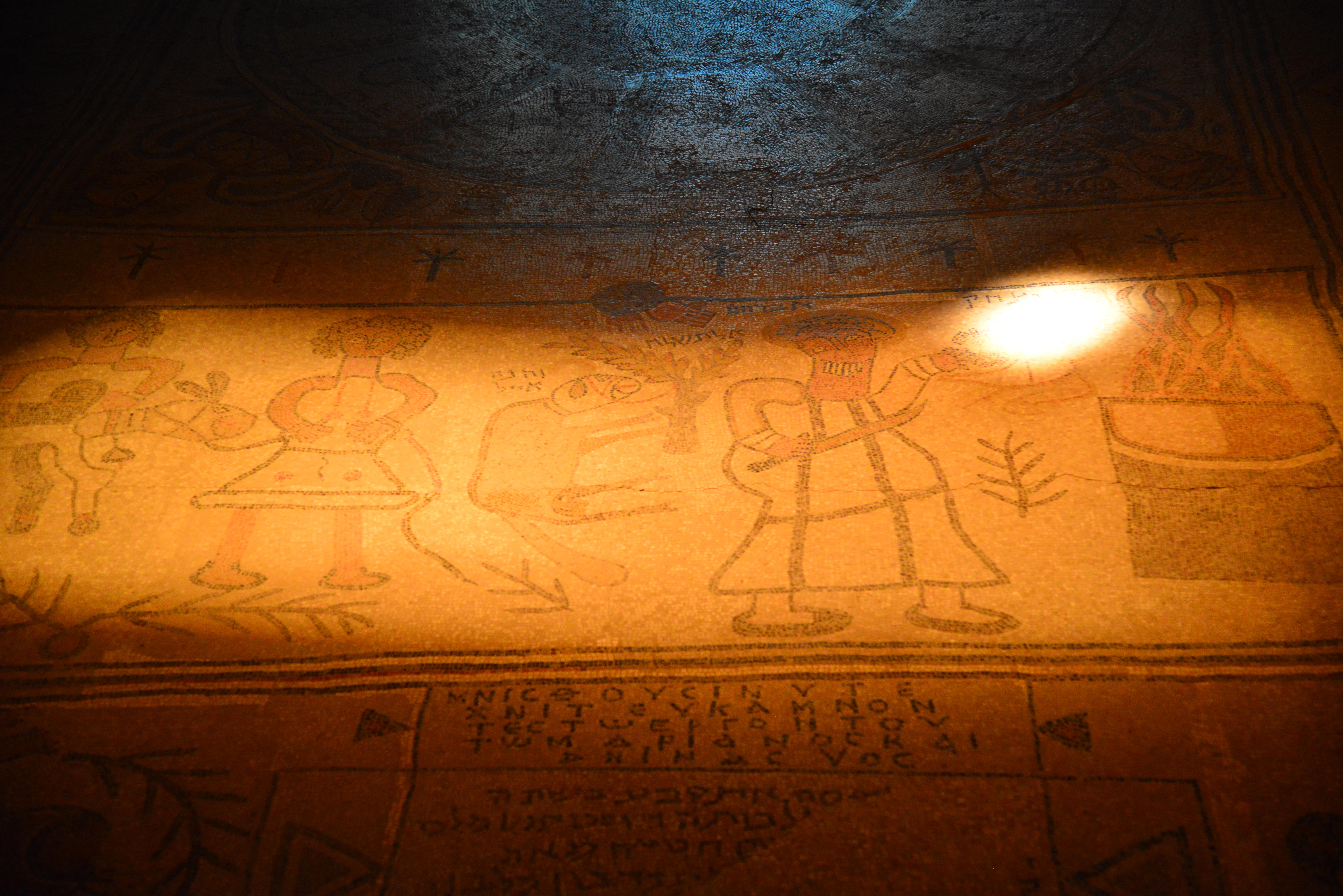 中文（中国大陆）: heritage sites in Israel photo international competition